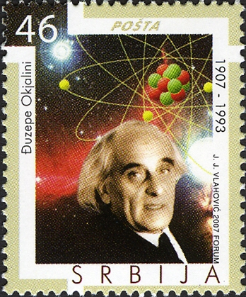 Great Scientists - Giuseppe Occhialini